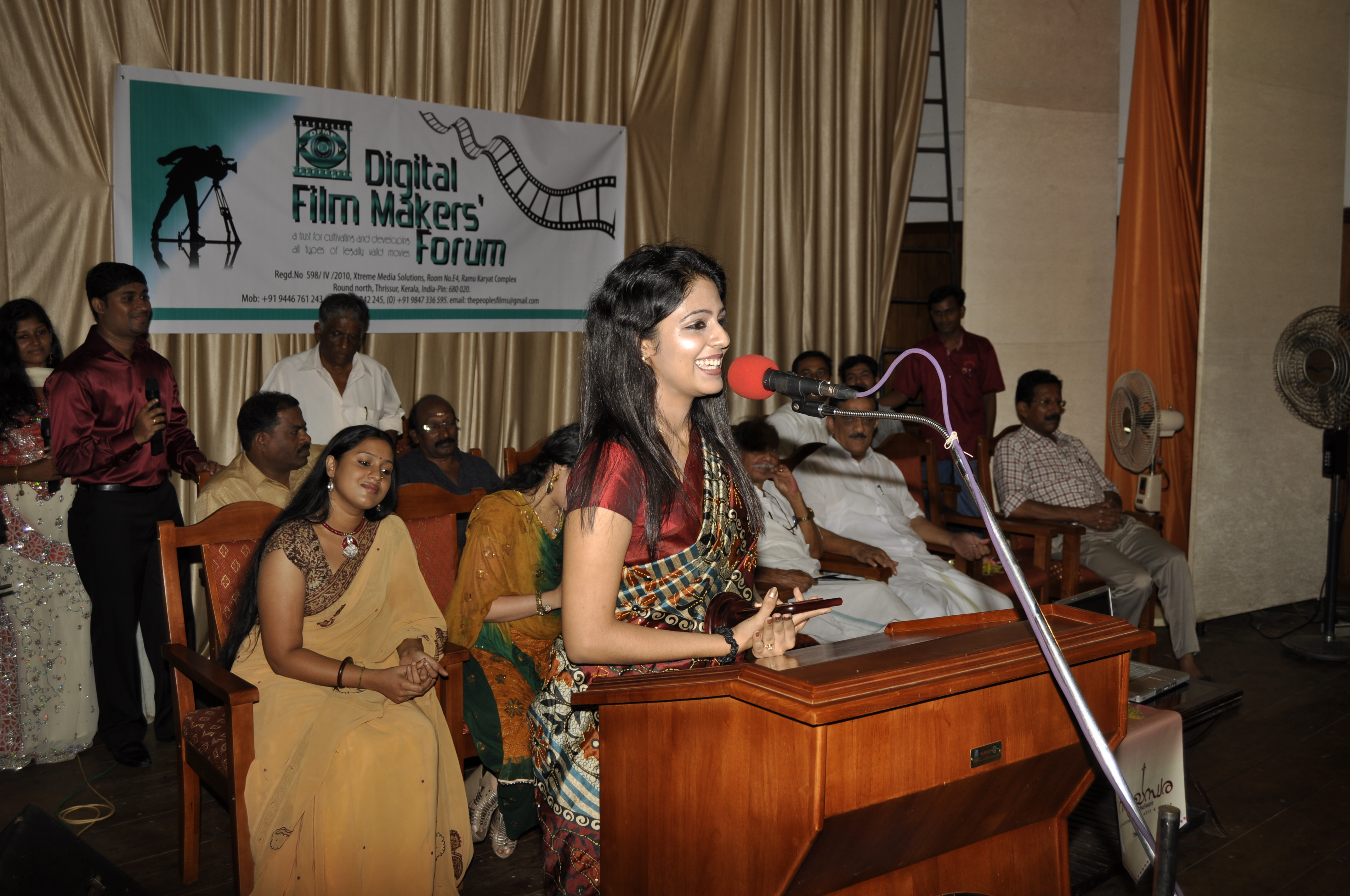 Malavika Wales speaks in Jalachhayam award event, associated with D.F.M.F Trust inauguration-1